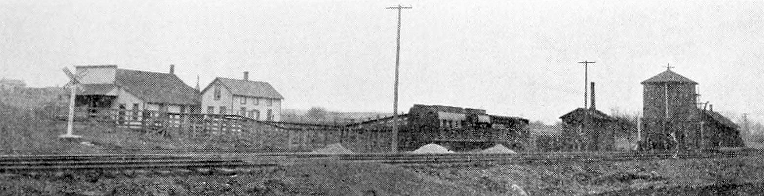 Volland, Kansas. Identifier: earlyhistoryofwa00thom Title: Early history of Wabaunsee County, Kansas, with stories of pioneer days and glimpses of our western border.. Year: 1901 (1900s) Authors: Thomson, Matt Subjects: Wabaunsee County (Kan.) -- History Publisher: Alma, Kansas Text Appearing Before Image: TEMPLIN POSTOFFICE. Text Appearing After Image: VOLLAND STATION. Seven miles southwest of Alma.